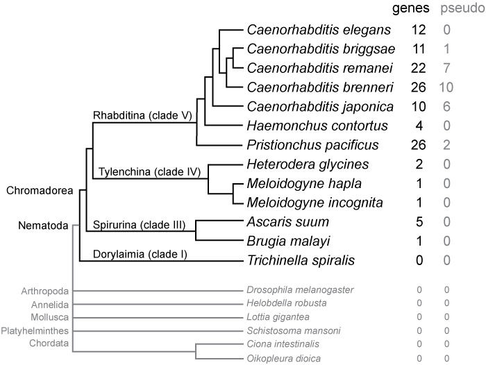 Phylogenetic range of the SmY RNA family (Rfam). Author: Sean R. Eddy